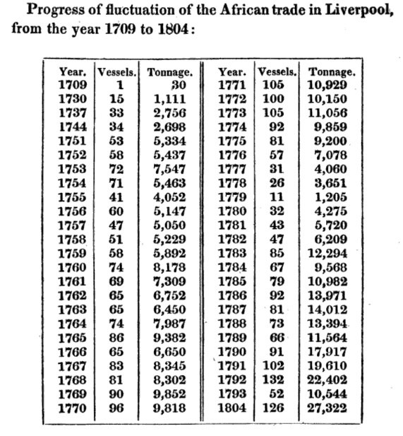 Numerical chart showing the number of slavers sailing from Liverpool 1709-1804